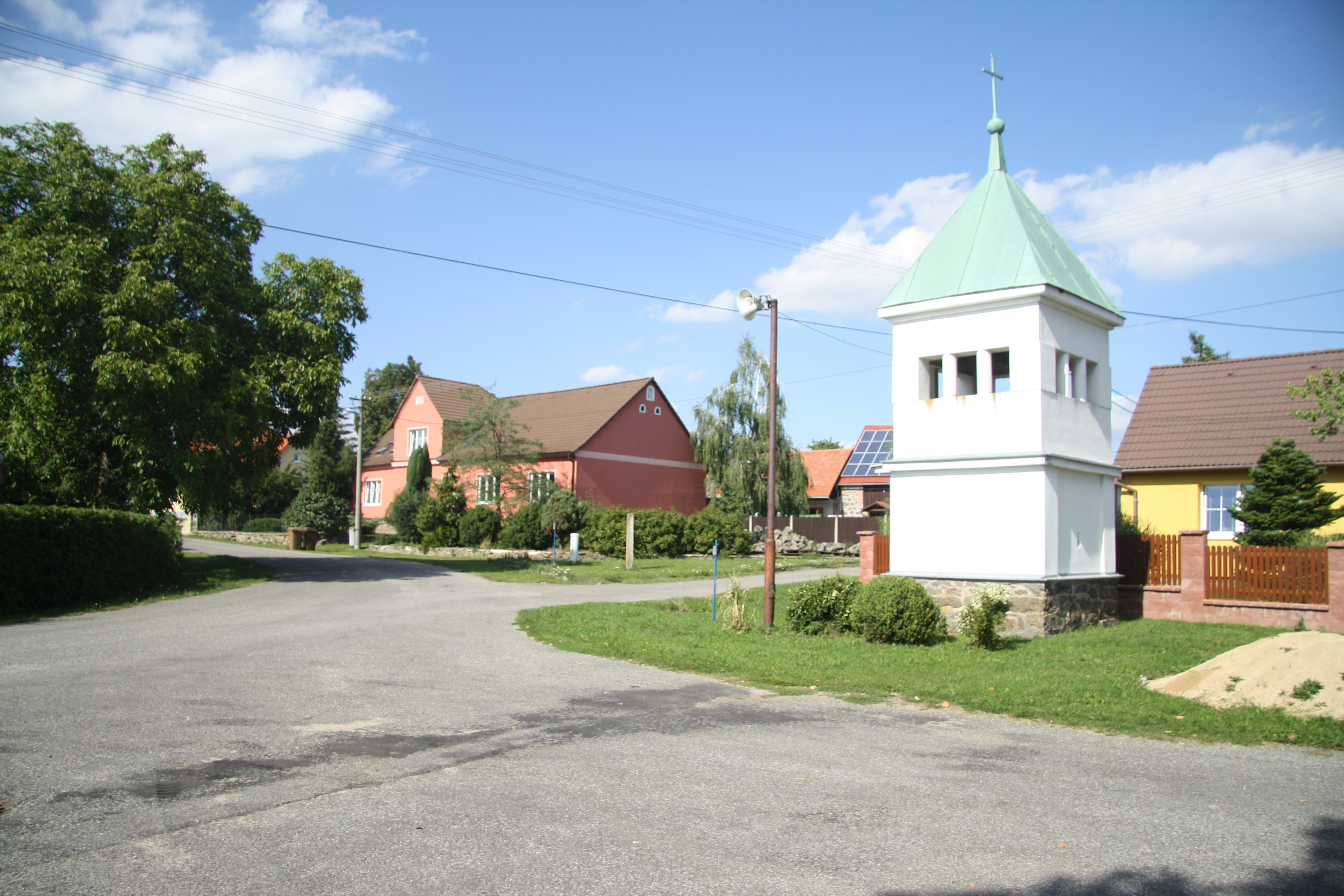 Center of Bezděkov, Velká Bíteš, Žďár nad Sázavou District.